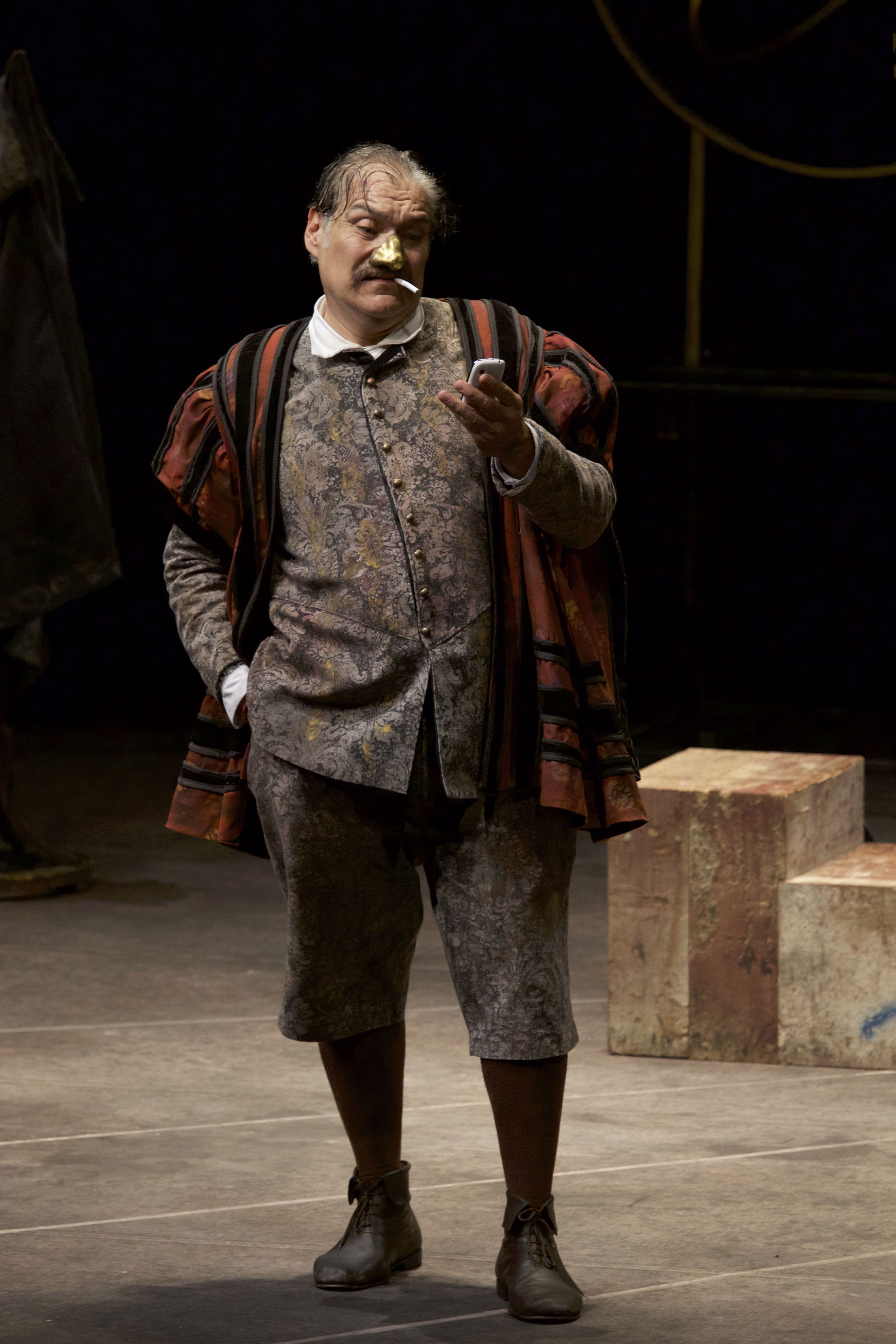 Domingo 22 de octubre de 2017En el Teatro Helénico, del Centro Cultural del mismo nombre, Eduardo Vázquez Martín, secretario de Cultura de la Ciudad de México y el actor Héctor Bonilla, develaron la placa de la última función La Desobediencia de Marte, del escritor Juan Villoro, dirigida por Antonio Castro e interpretada por Joaquín Cosío y José María de Tavira.Fotografía: Milton Martínez / Secretaría de Cultura CDMX